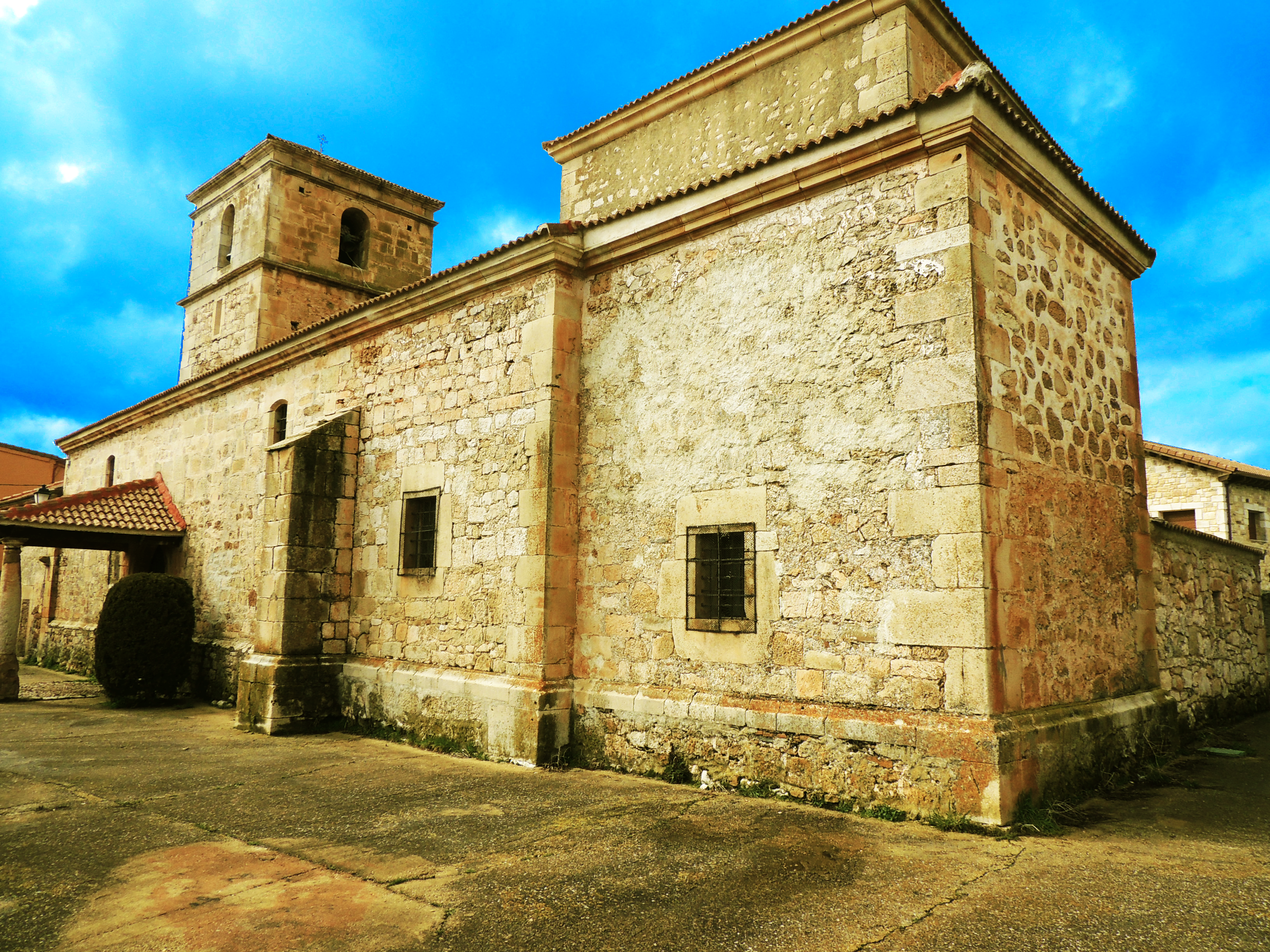 San Julián Church, CANTALOJAS (Guadalajara) Spain.